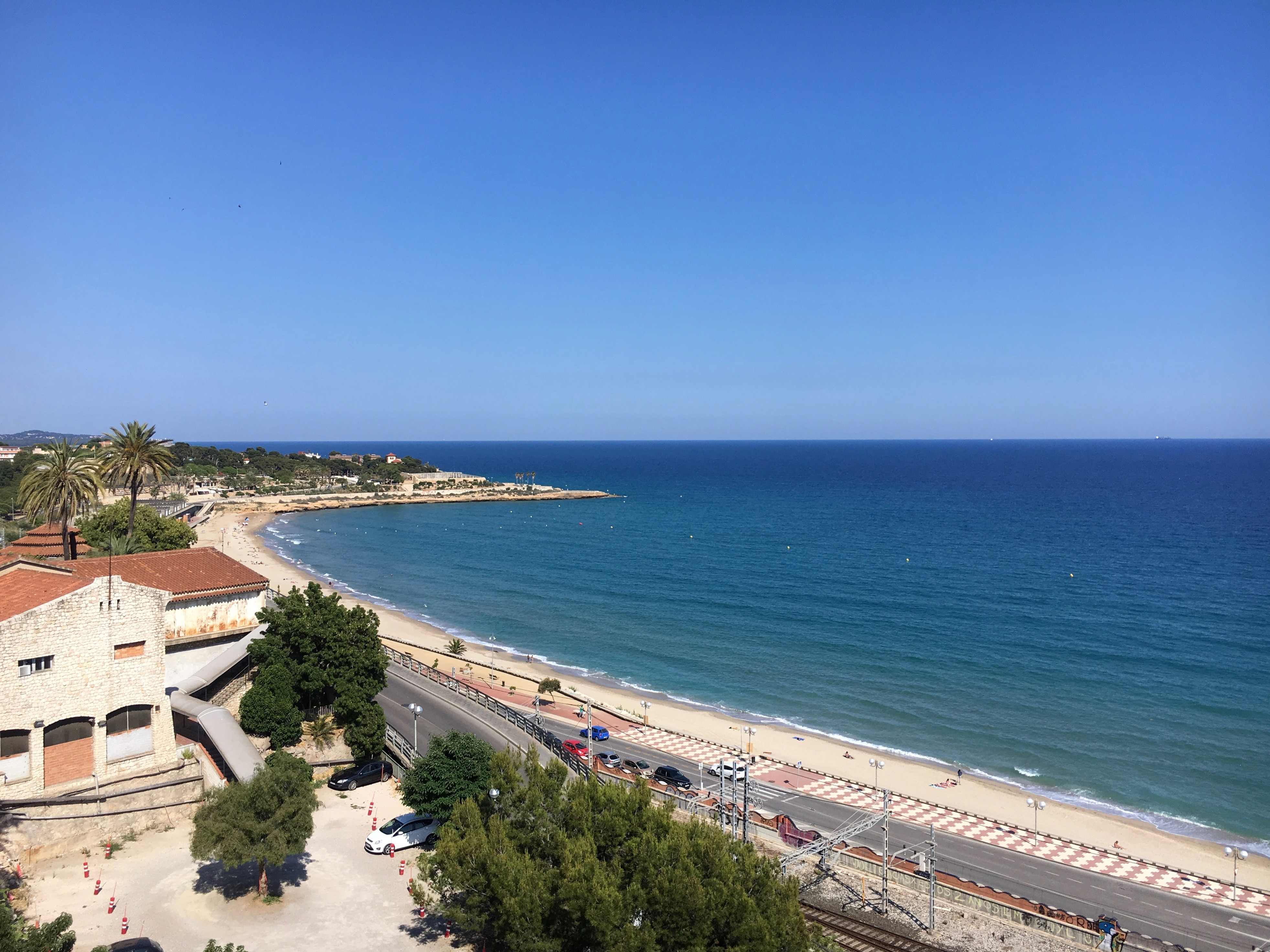 View from "Mediterranean balcony" in Tarragona